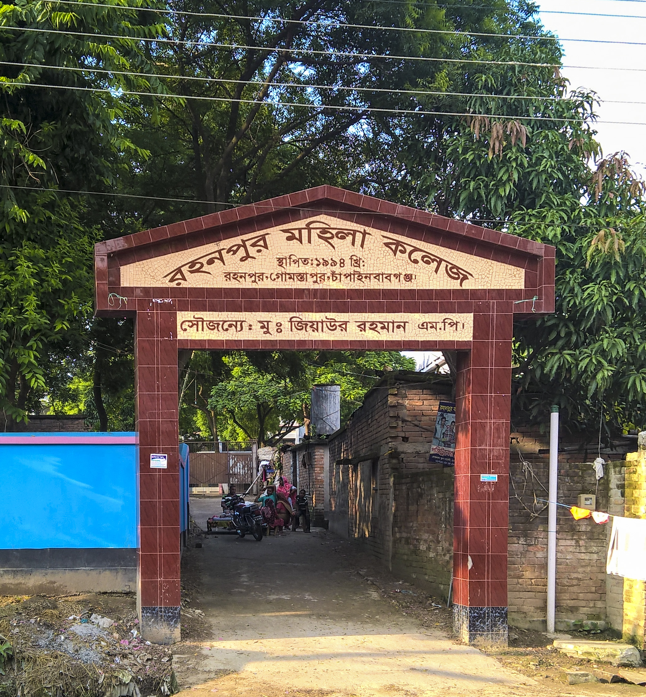 Rohanpur Womens College is a higher study education institute in Gomastapur, Chapainawabgonj, Bangladesh.